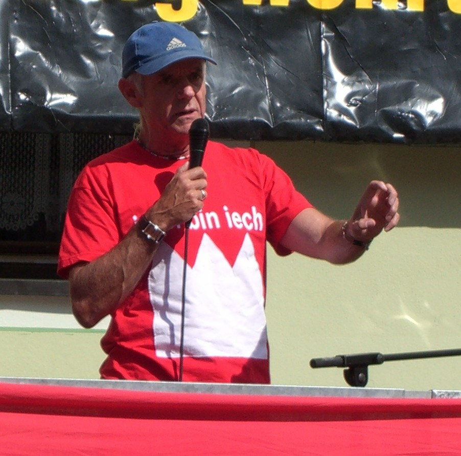 The cabaret artist Klaus Karl-Kraus humorously addressing the audience of the anti nazi demonstration "Gräfenberg ist bunt" (Gräfenberg is colorful) at the market place of Gräfenberg in Upper Franconia (Bavaria, Germany) on 18. August 2007.